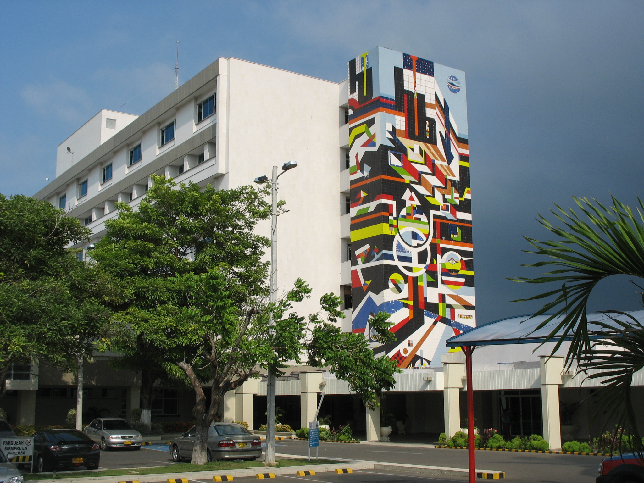 Barranquilla - CARI